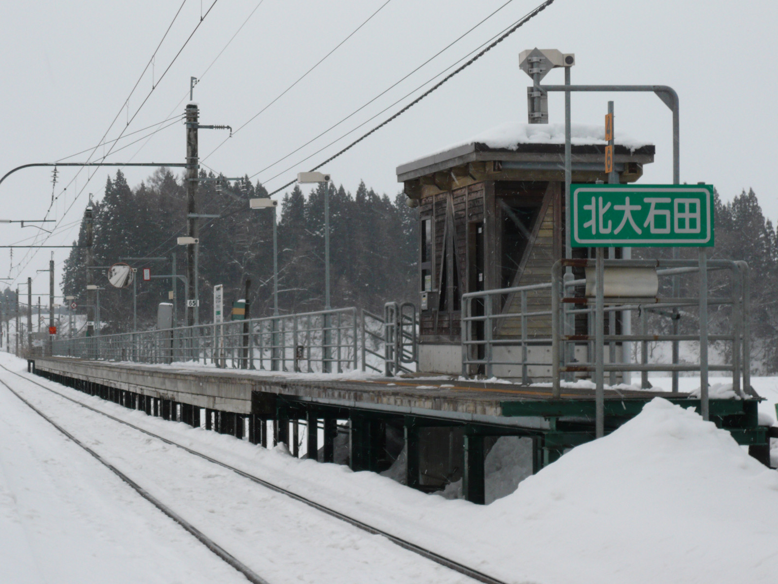 kita-oishida Station(Oishida Town,Yamagata Prefecture,Japan)